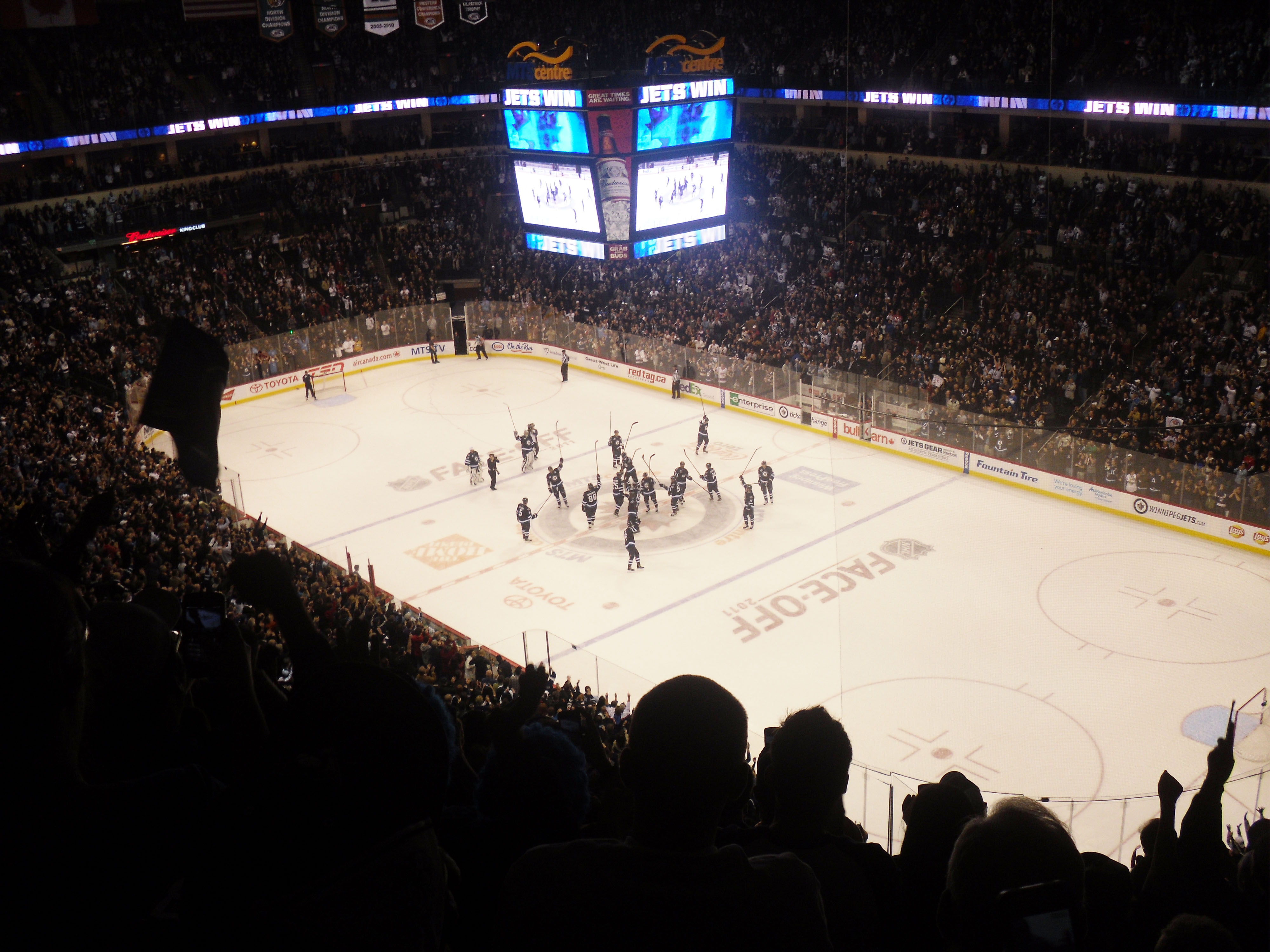 This picture was taken as the Winnipeg Jets of the National Hockey League celebrate their first regulation win as re-born team at the MTS Centre.